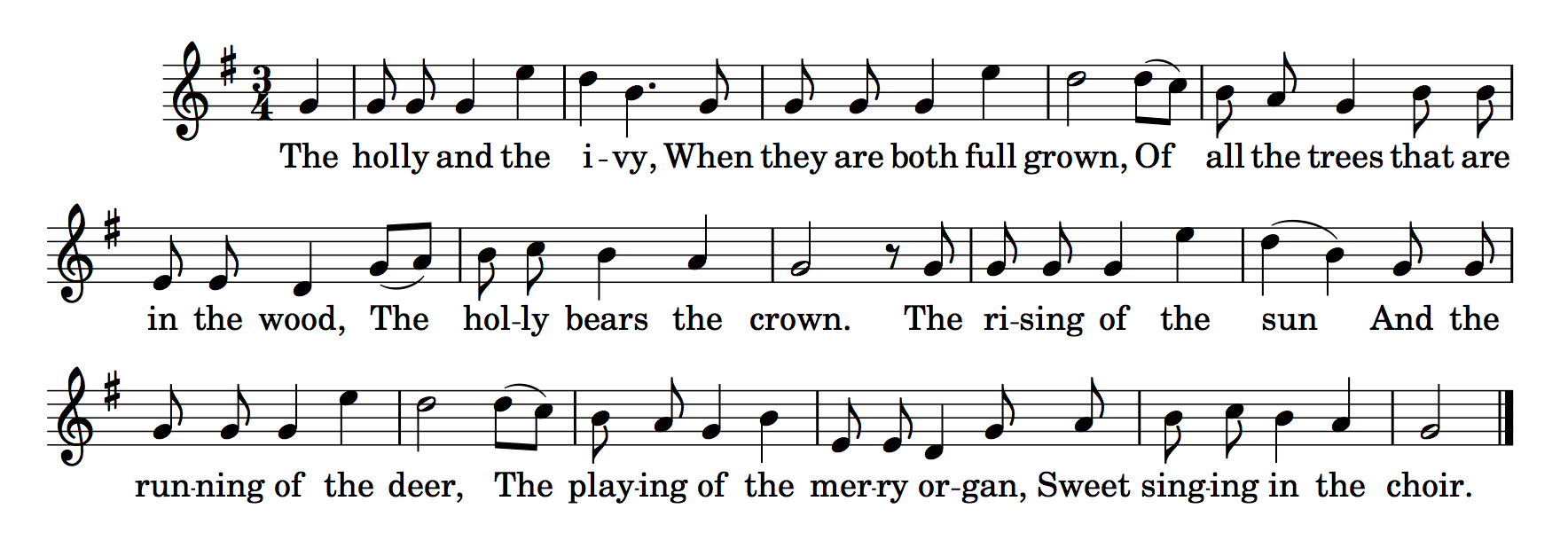 Melody of The Holly and the Ivy, from Sharp, English Folk-Carols (1911)